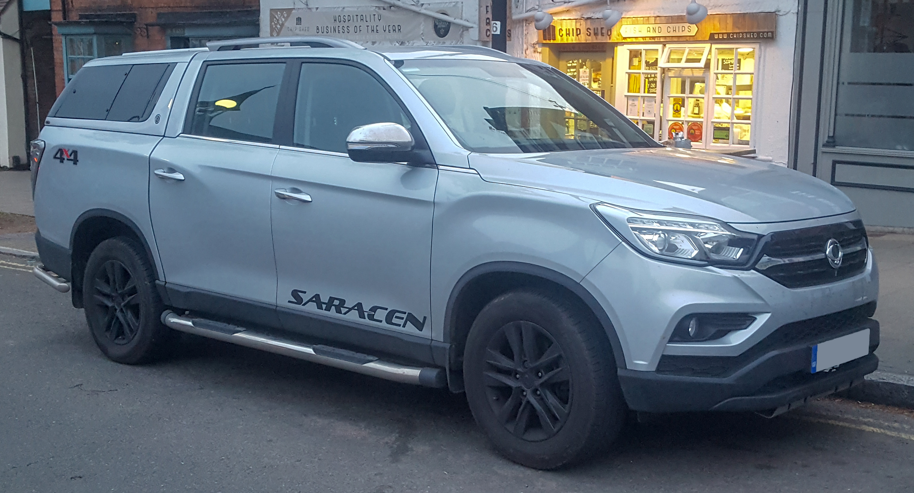 2018 Ssangyong Musso Saracen Automatic 2.2 Front Taken in Warwick